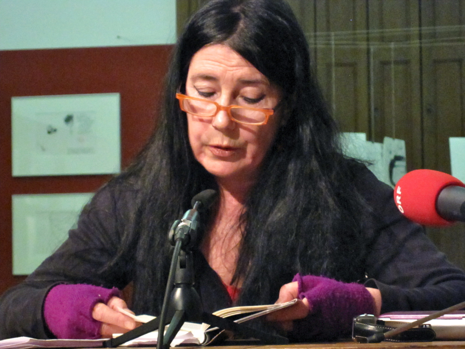 Austrian writer Petra Ganglbauer reads at the Literaturhaus Graz (2012)